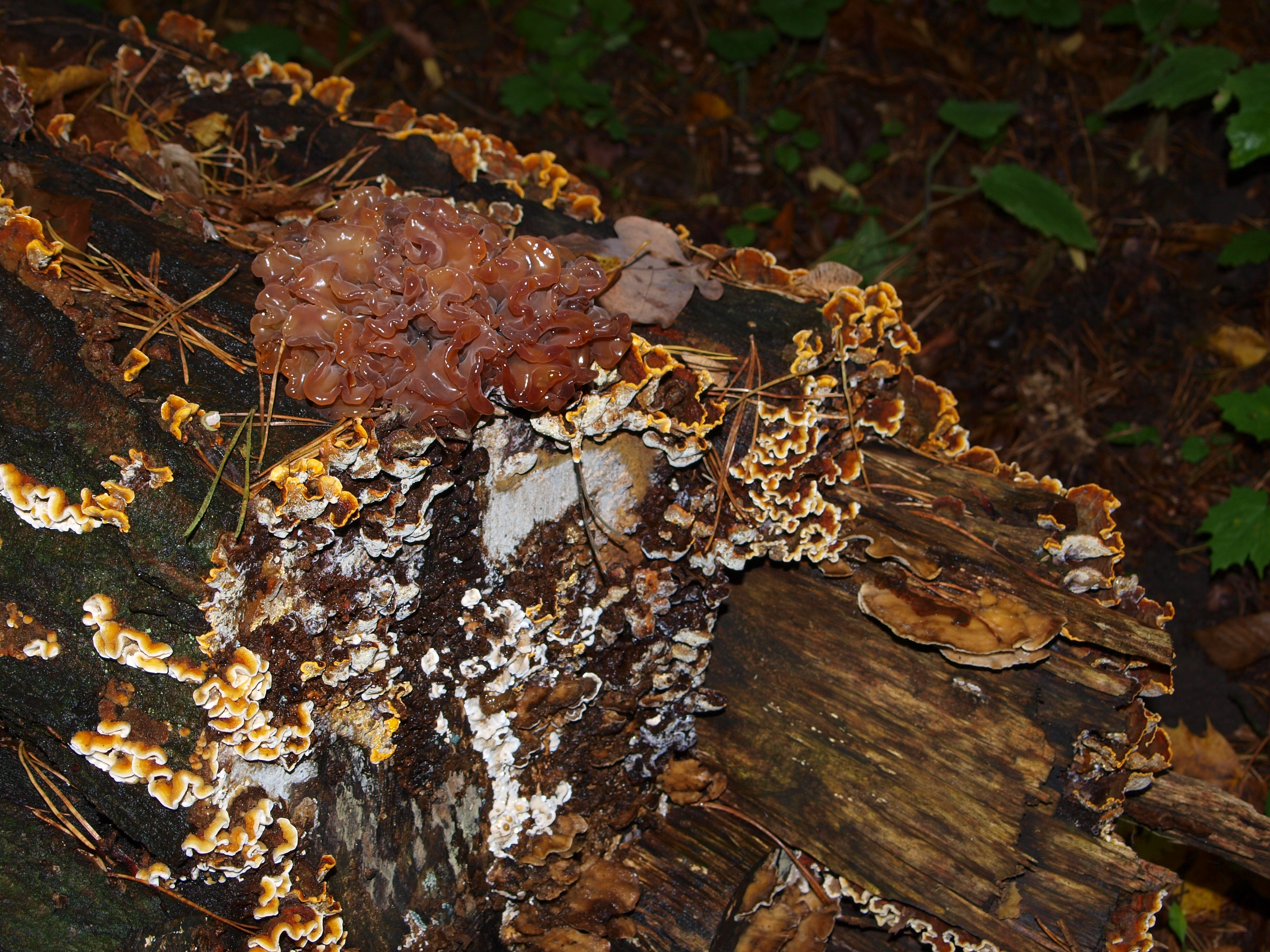 Mushrooms on rotting tree